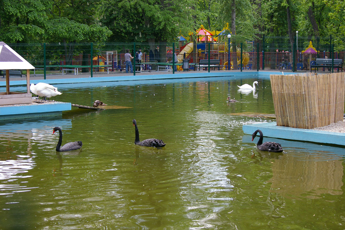 Rostov-na-Donu